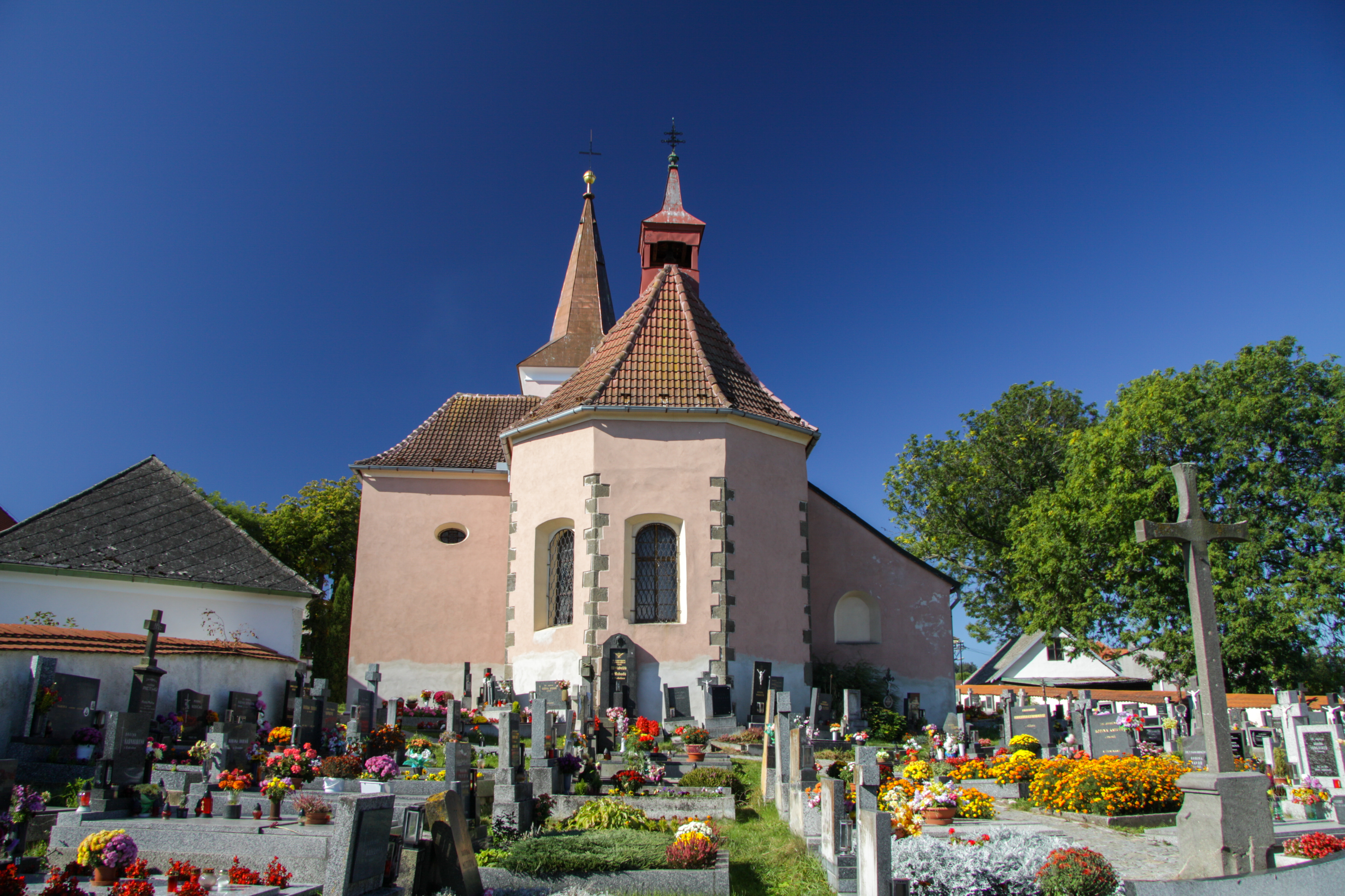 Church of st. Nicolaus in Lažiště village in Prachatice District in the Czech Republic